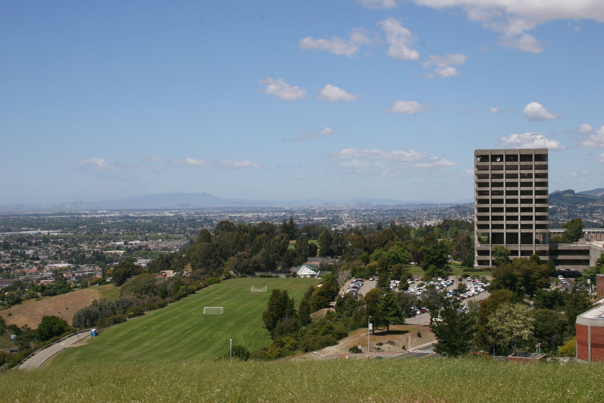 CSUEB